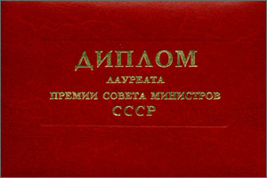 The diploma of the Award of Ministerial council of the USSR